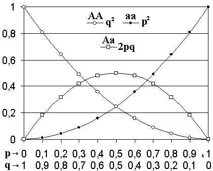 Hardy-Weinberg principle